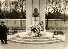 Pushkin Statue in Shanghai